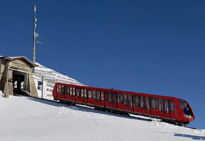 the new Parsennbahn in Davos